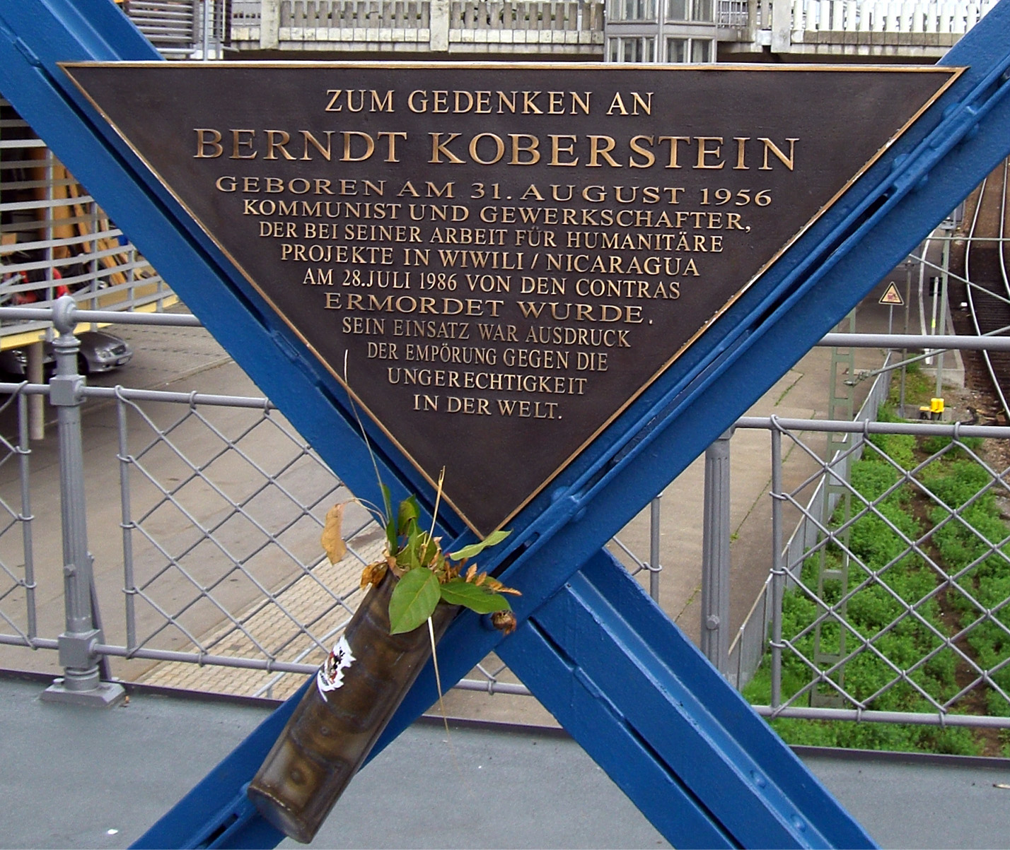 commemorative plaque Berndt Koberstein Wiwili bridge